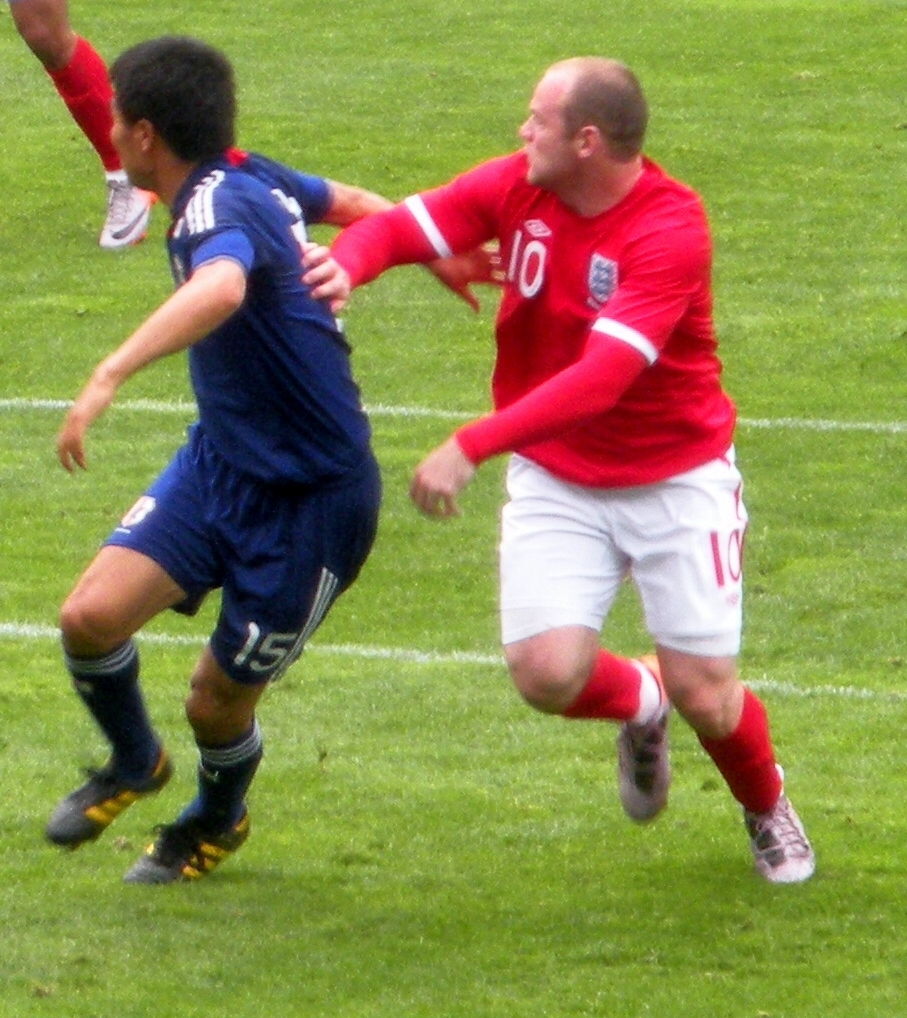 Wayne Rooney, friendly between Japan and England in Graz (Austria) on 30 May 2010